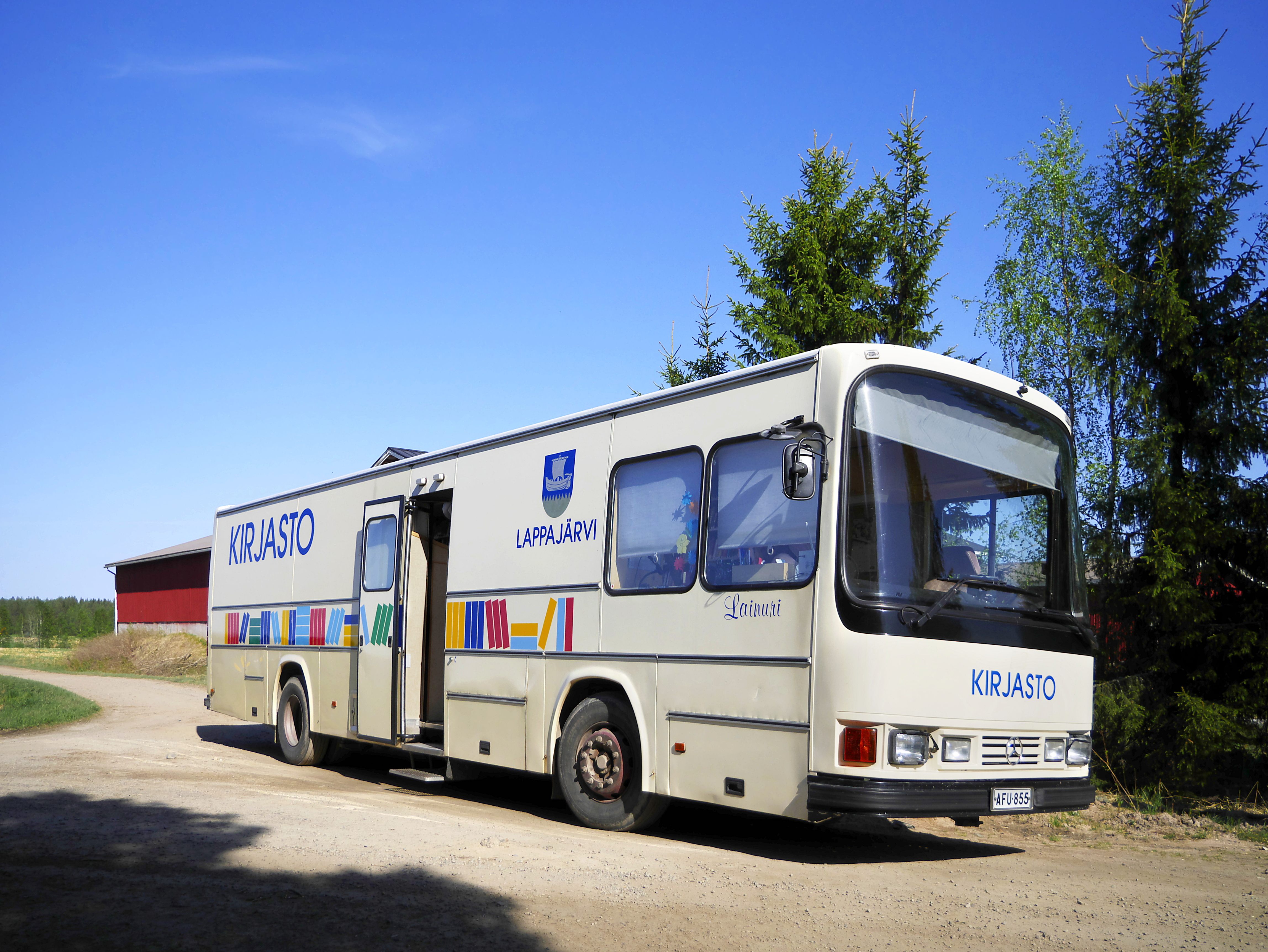 Bookmobile in Lappajärvi, Finland.